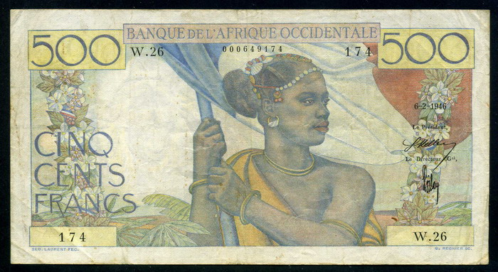 French West Africa 500 Francs banknote of 1946 Bank of West Africa - Banque de L'Afrique Occidentale.